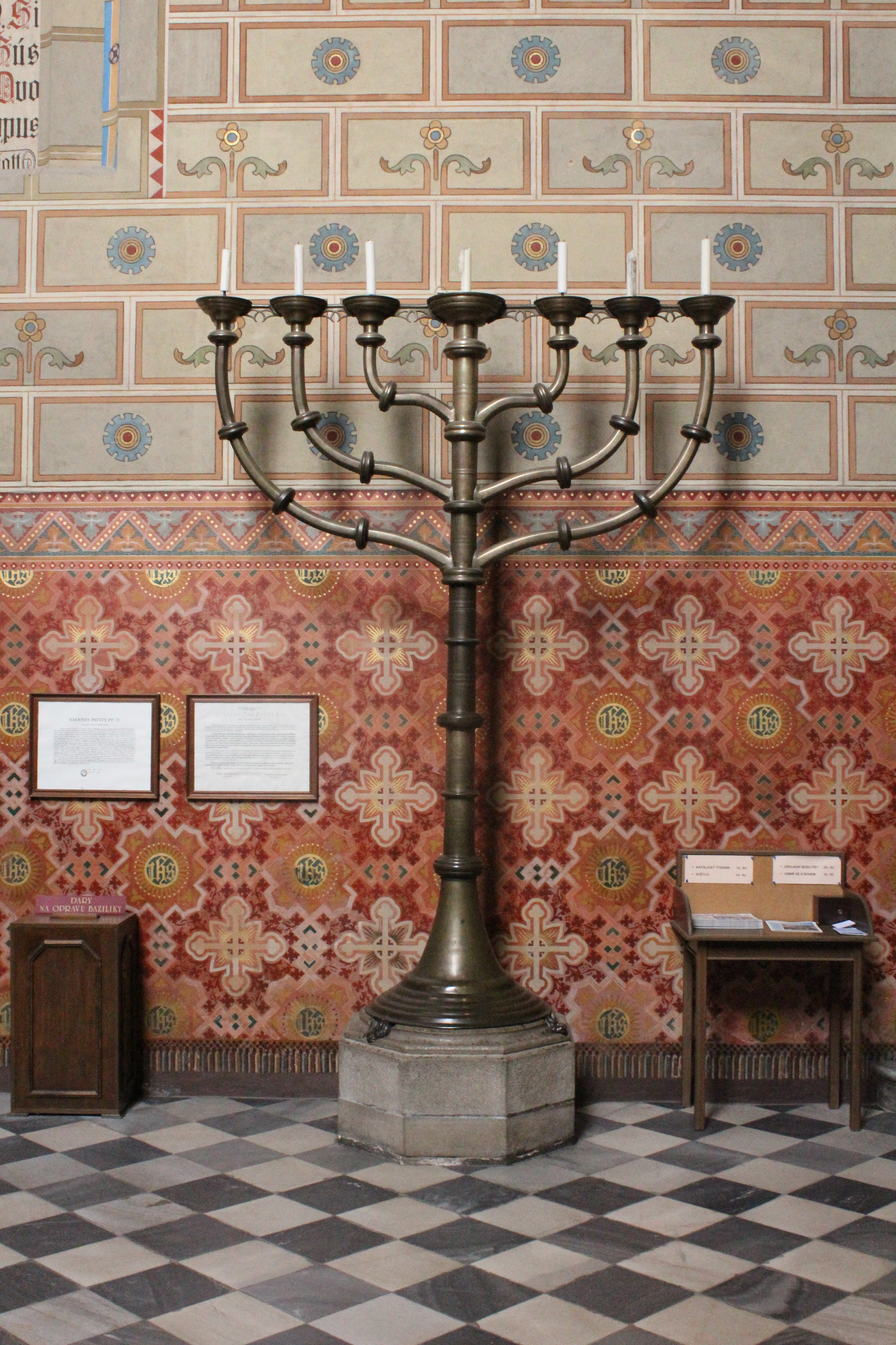 Basilica of the Assumption of Our Lady, Brno. Medieval seven-branched candelabrum standing in transept